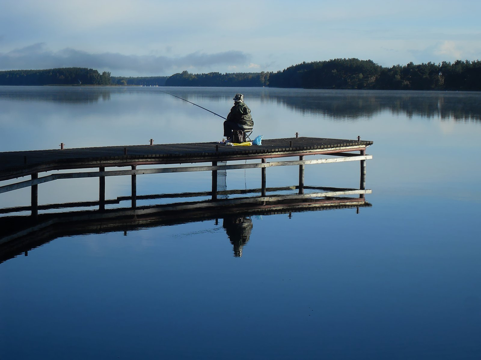 lone fisherman